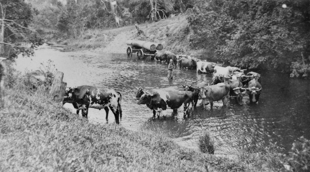 Bullock teams at Boefingers Crossing, Eumundi, 1917 Bullock team at Boefingers Crossing, Eumundi, pulling a wagon with pine logs from Hunsleys.